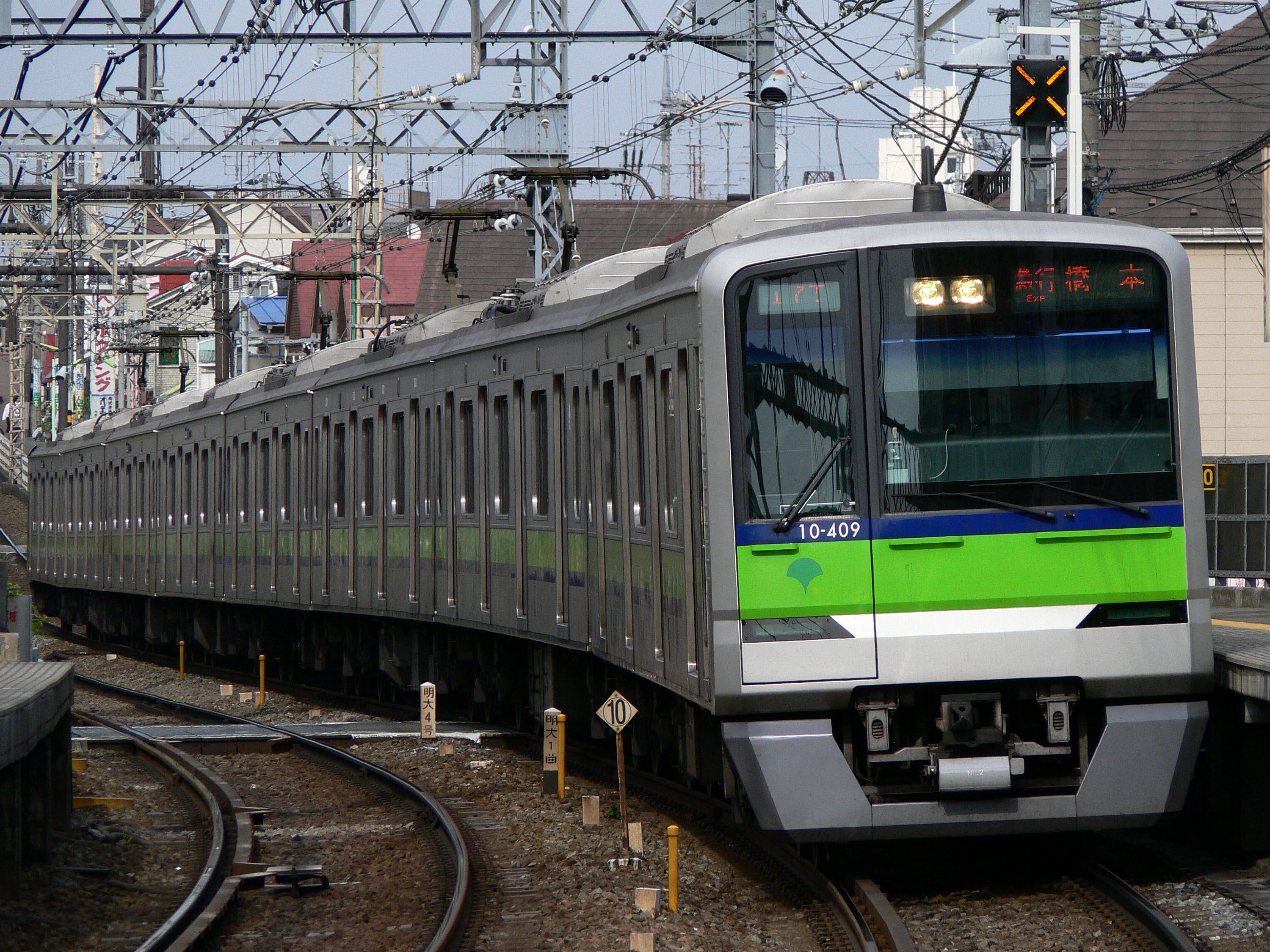 Toei 10-300 series EMU set 10-400 at Shimo-Takaido Station